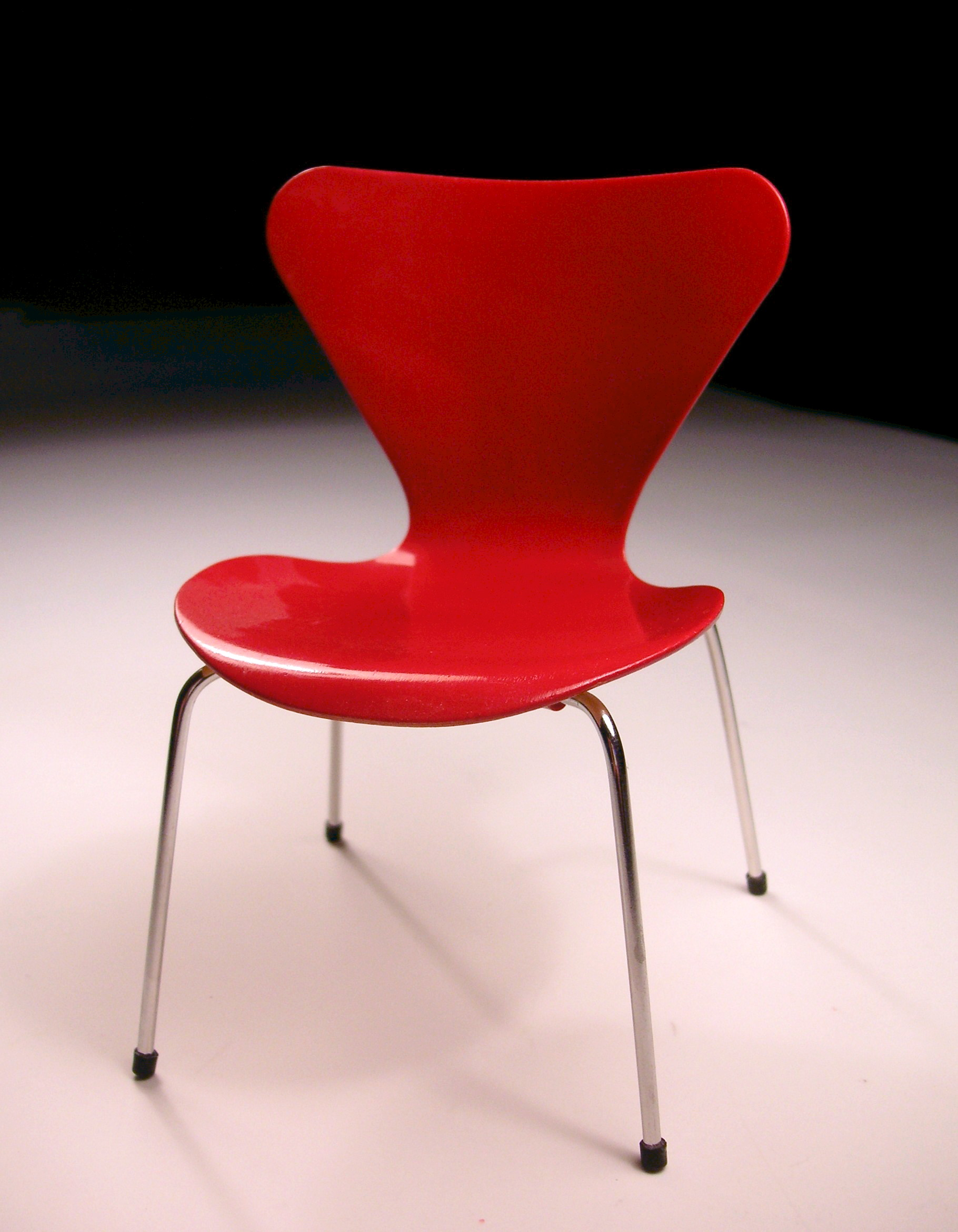 Arne Jacobsen, stol 7:an